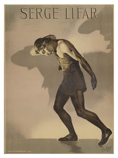 Original linen backed stone lithograph ballet poster: Serge Lifar. This Russian poster depicts a famous ballet dancer. The serene colors are elegant and captivating and catches the performer in his own right as one of the leading dancers of his time. One can read up on the history of Serge Lifar...which makes it all the more charming to own. A rare piece of history! Preserved and mounted on linen. Great condition. All posters arrive with authenticity papers. Lifar made his debut at the Ballets Russes in 1923, where he quickly became a principal dancer. He played the lead roles in the ballets of George Balanchine and at the death of Diaghilev in 1929 he entered the Paris Opera Ballet and created his first ballet. As ballet master of the Paris Opera from 1930 to 1944 and from 1947 to 1958, he devoted himself to the restoration of the technical level of the Paris Opera Ballet to return it to its place as one of the best companies in the world. Original Serge Lifar, linen backed and ready to frame. Original Color lithograph. 63 x 47" unlined. Teddy Piaz worked in France during the 1920s-1940s. Serge Lifar (1905-1986) was a Russian-French dancer and choreographer of exceptional stage presence, who revitalized the Paris Opéra Ballet and was the primary figure of modern French ballet. Born in Kiev, Lifar was a premier dancer in the Ballet Company of the Russian impresario Sergei Diaghilev before becoming director of the Paris Opéra Ballet in 1929. Conveying drama through choreography, he created more than 50 ballets on themes from myth, legend, and history and used male dancers in dominant rather than supporting roles. Printed: De Champrosay, Paris.